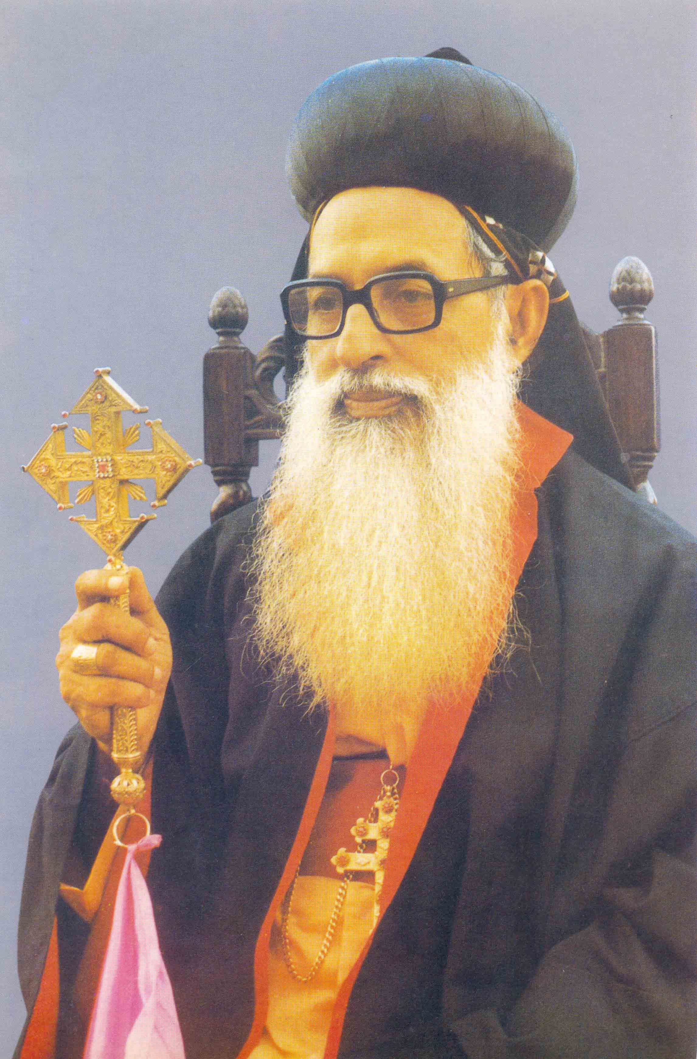 Mar Gregorios